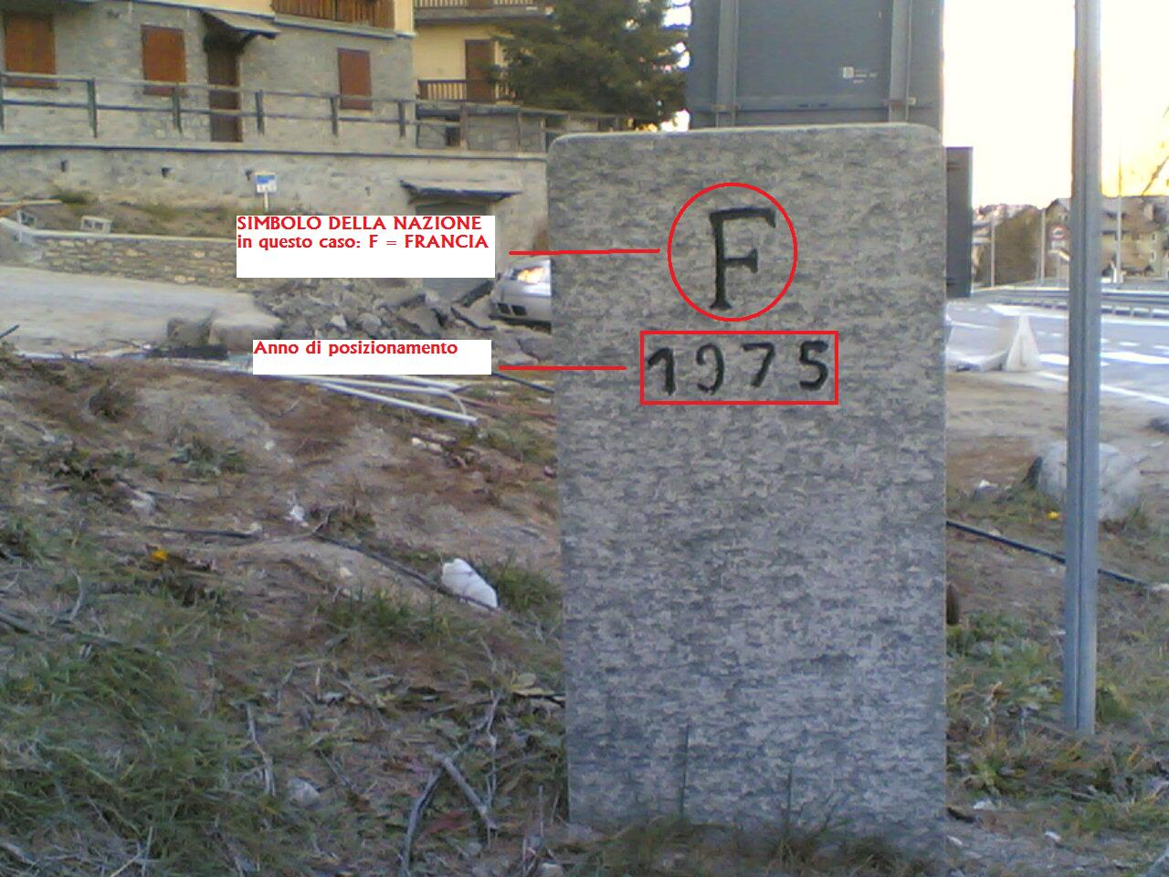 Photo of the border milestone n°24 between Italy and France (1975) close to the village of Claviere (I) coté du village de Clavière (I). This is the french side. This milestone was put after the creation of the new borders between Italy and France (1974).